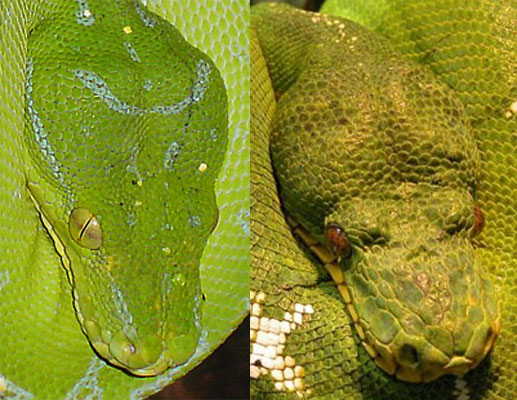 Description: Kopfstudie\Headpicture Morelia viridis - Corallus caninus M.viridis Pic: Mviridis Sorong.jpg by Jens Raschendorf C.caninus Pic: Gruenerhundskopfschlinger-02.jpg by Wilfried Berns first upload in de.wikipedia on 18:17, 2. Apr 2006 by Baumpython